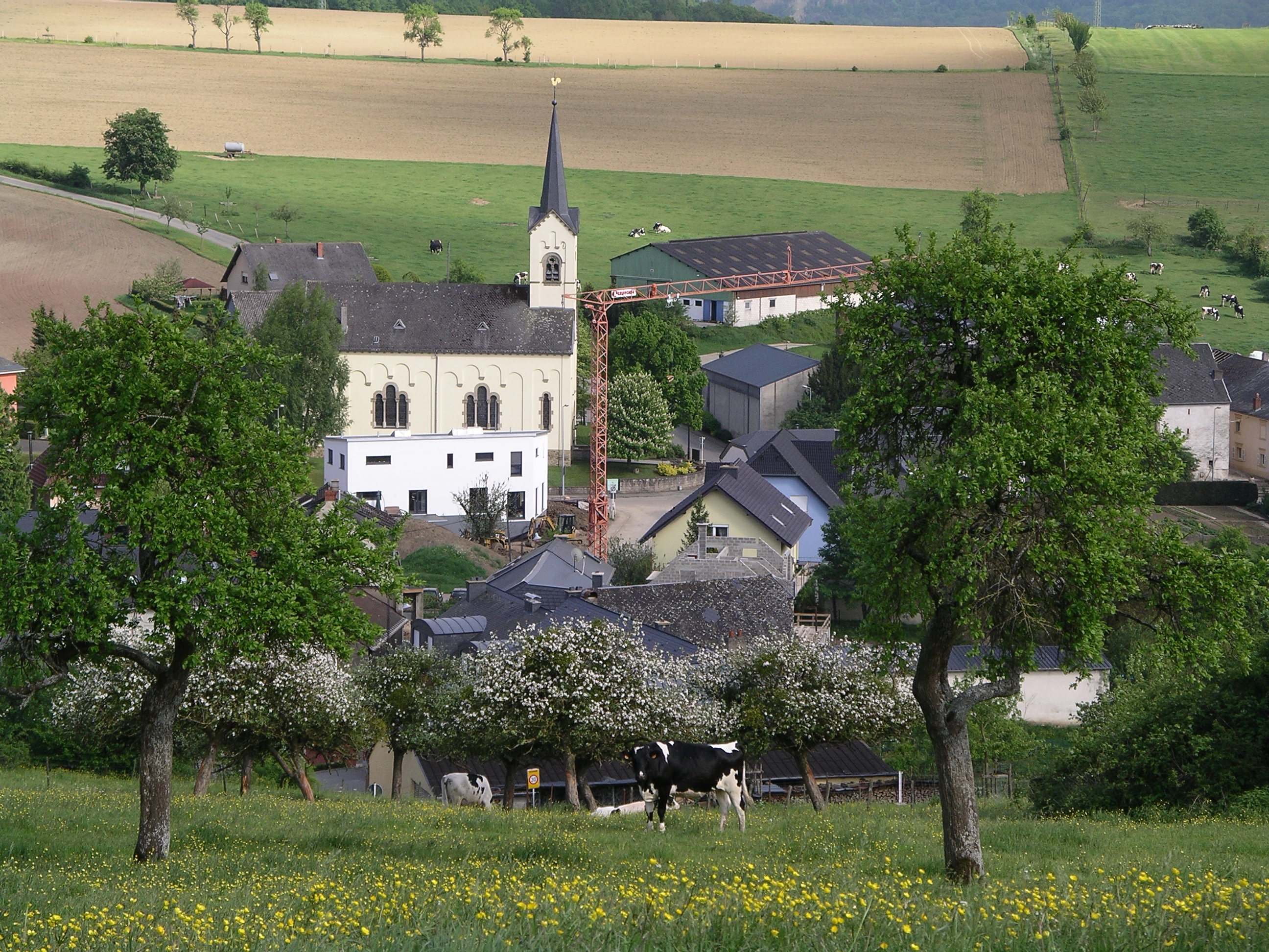 Lellig, Luxembourg